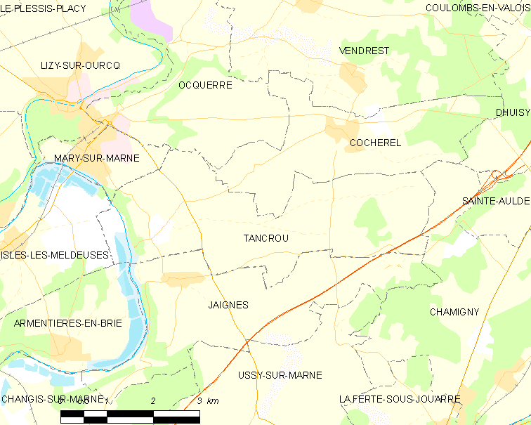 Map of French municipality Tancrou